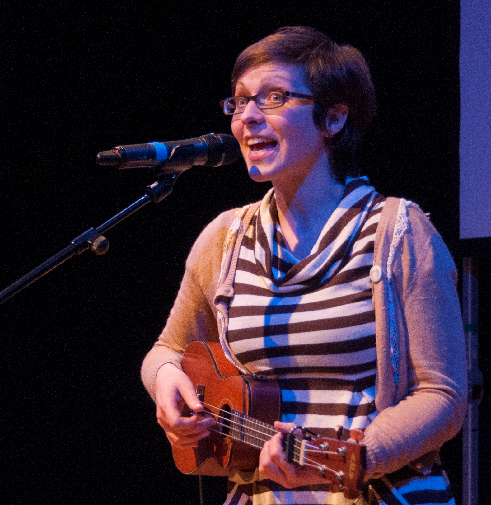 Helen Arney performing in 2012 during the annual Winchester Skeptics Christmas Party.